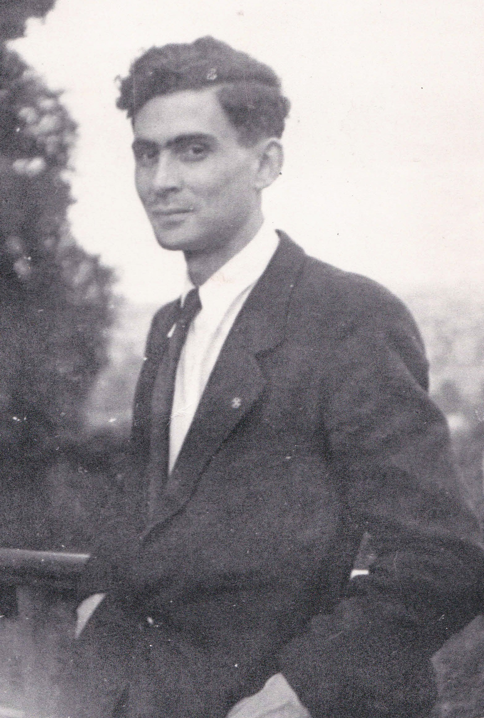 Alain Berton (1912-1979), French chemist.